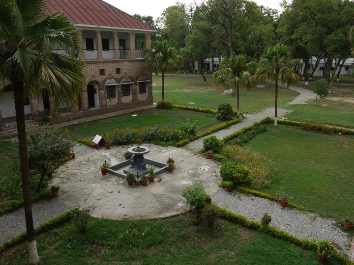 Tata House Quadrangle, Doon School